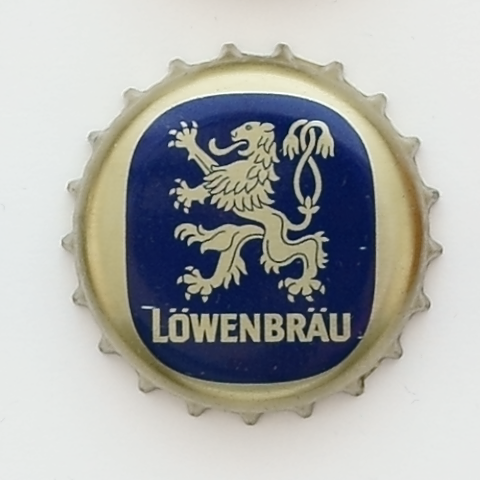 Bottle caps from different countries